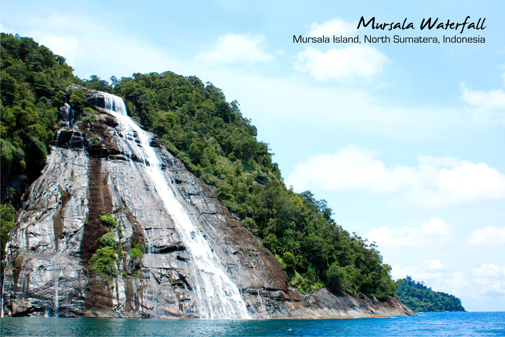 mursala tapteng